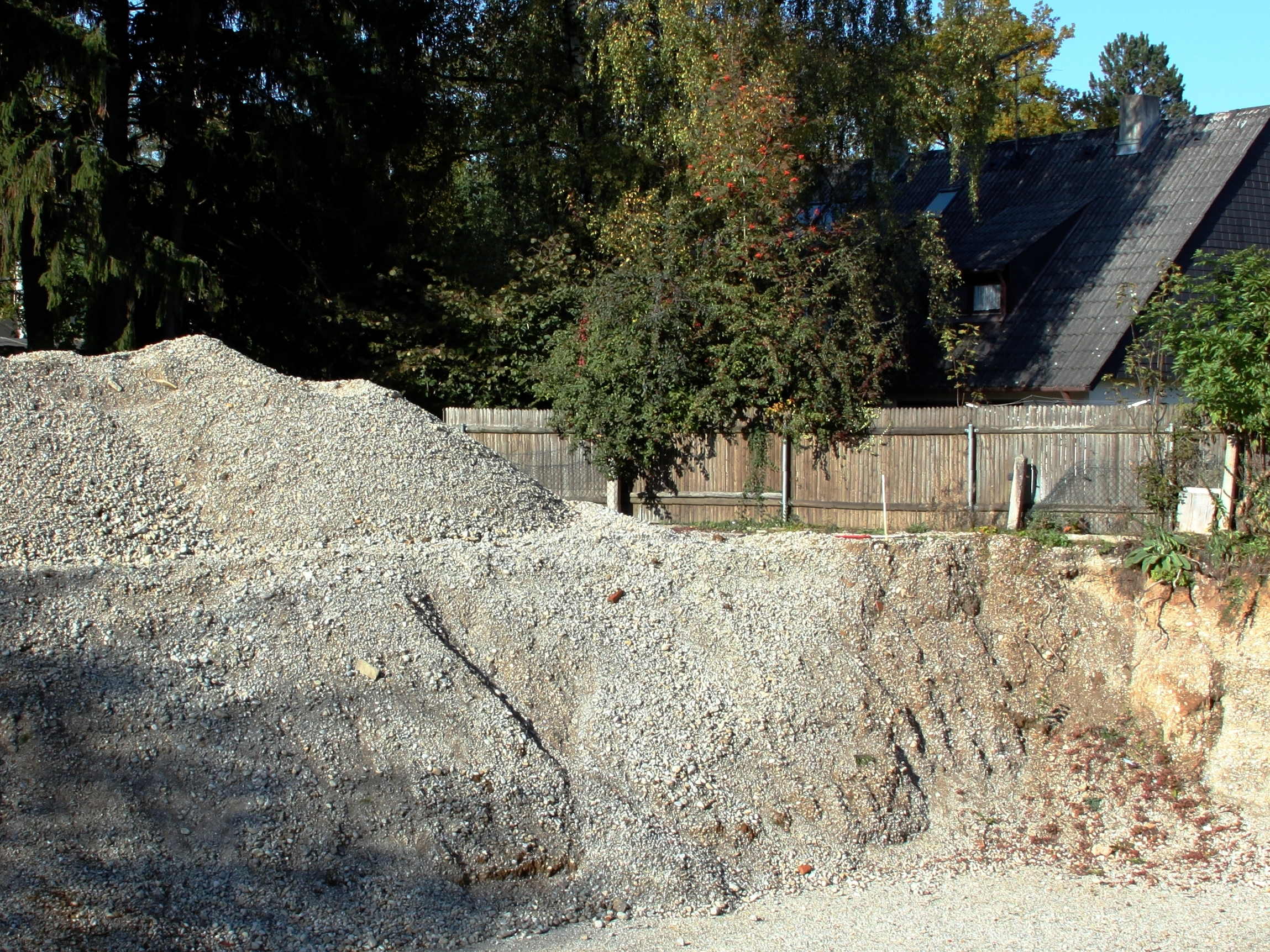 Ottobrunn (Uhlandstraße 4): The building pit reveals the underground of the municipality – a powerful layer of quaternary gravels covered by a thin humus layer (middle right).